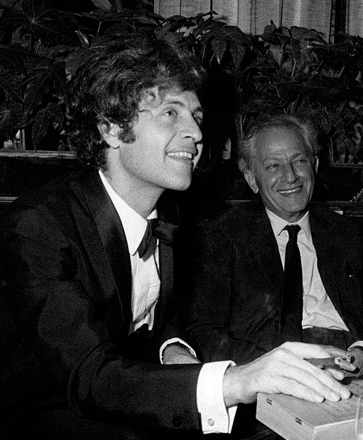 American-born French singer Joe Dassin smoking a cigar at the table of a bar. Beside him, his father, American director Jules Dassin. Paris, 1970.